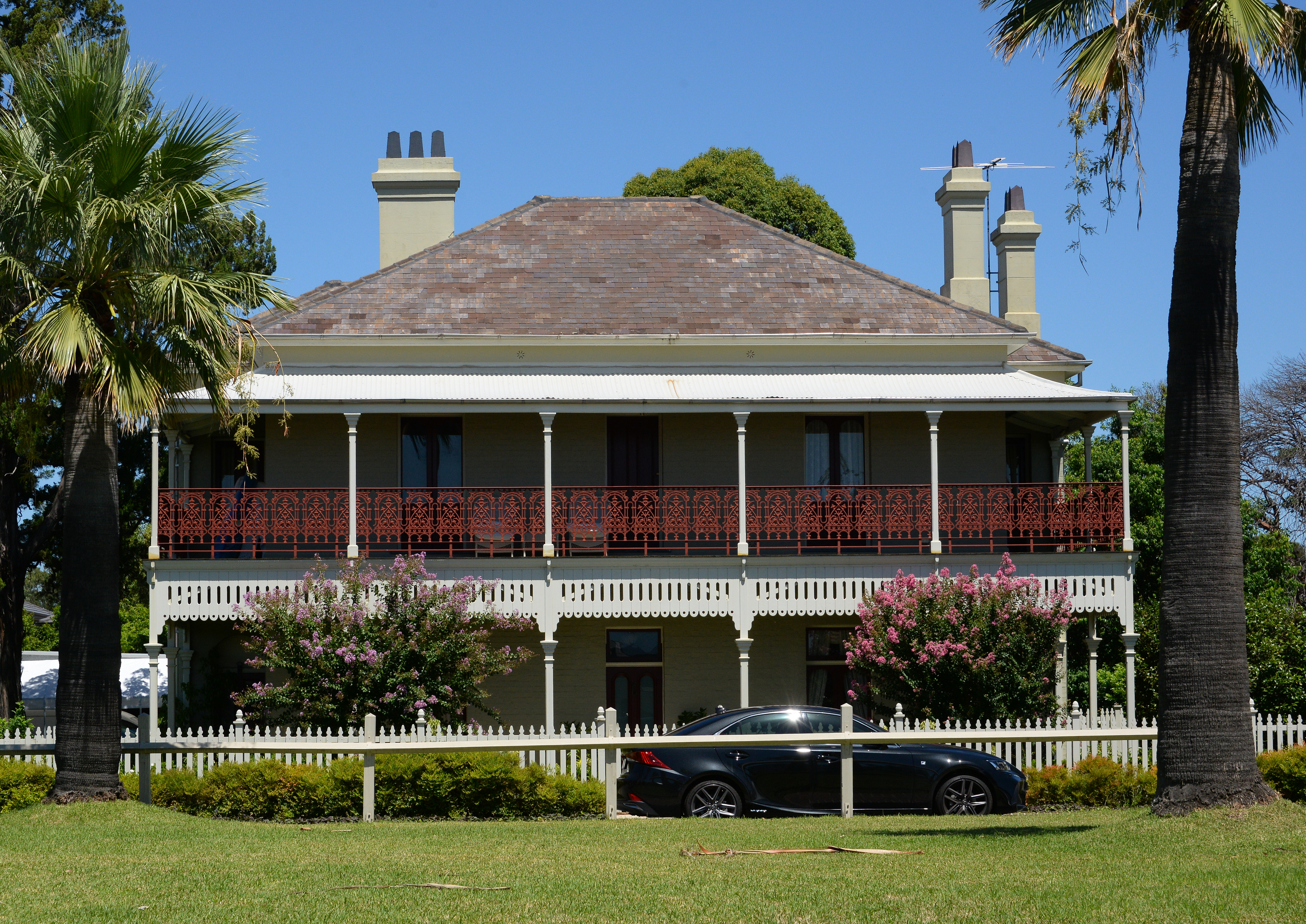 Former Lidcombe Hospital, Lidcombe, Sydney (superintendent's residence)